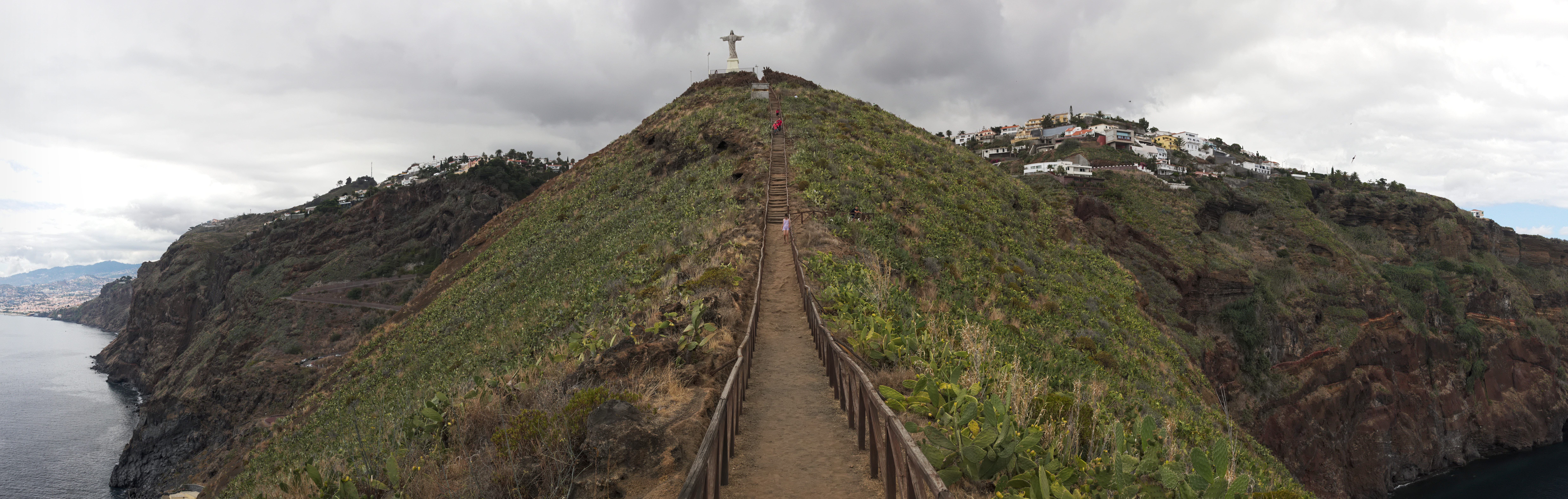 Cristo Rei in Garajay, Caniço, Madeira, Portugal.